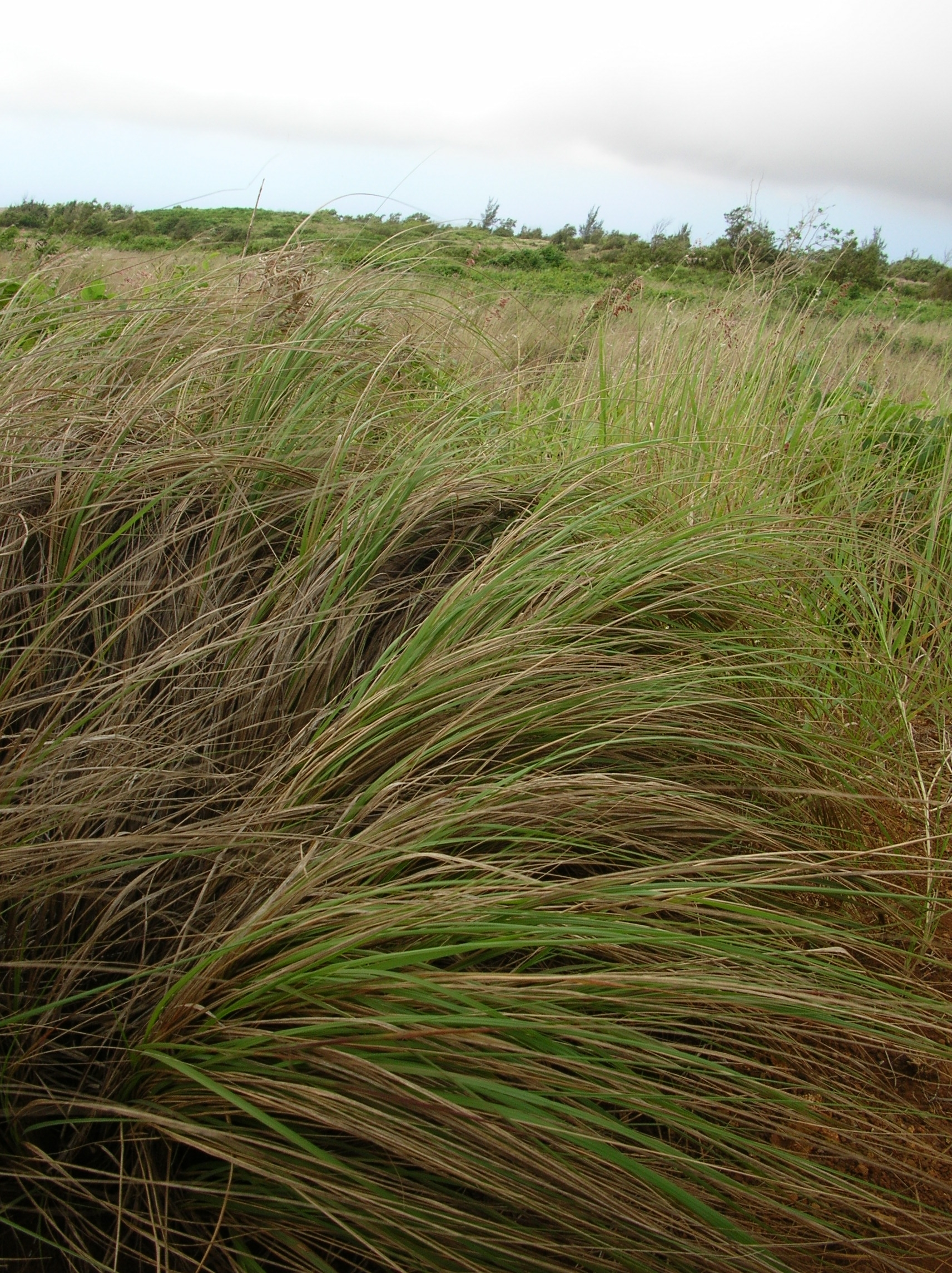 Eragrostis curvula (habit). Location: Kahoolawe, Lua Makika